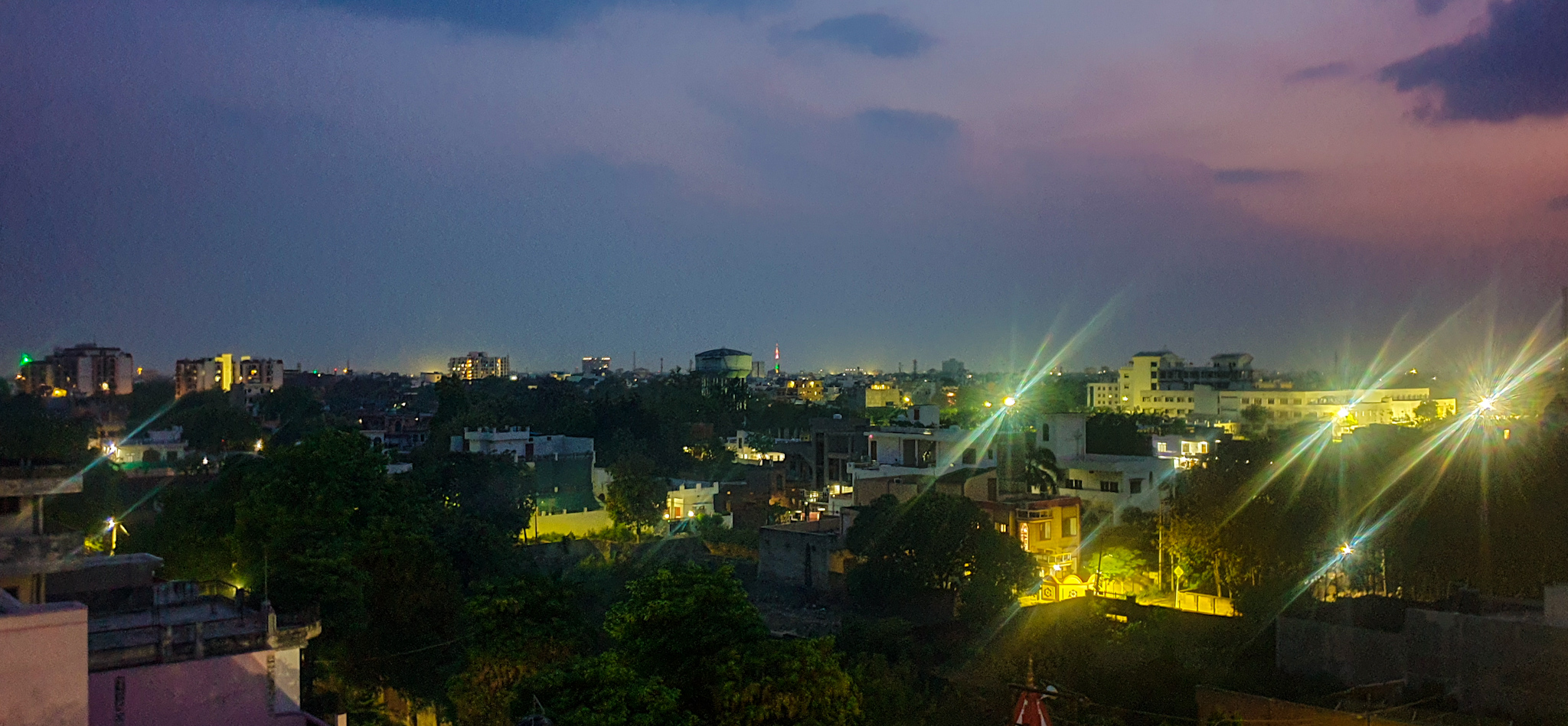 Sarnath, the suburb of Varanasi